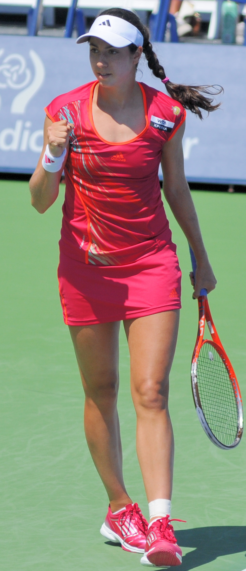 Mercury Insurance Open 2012